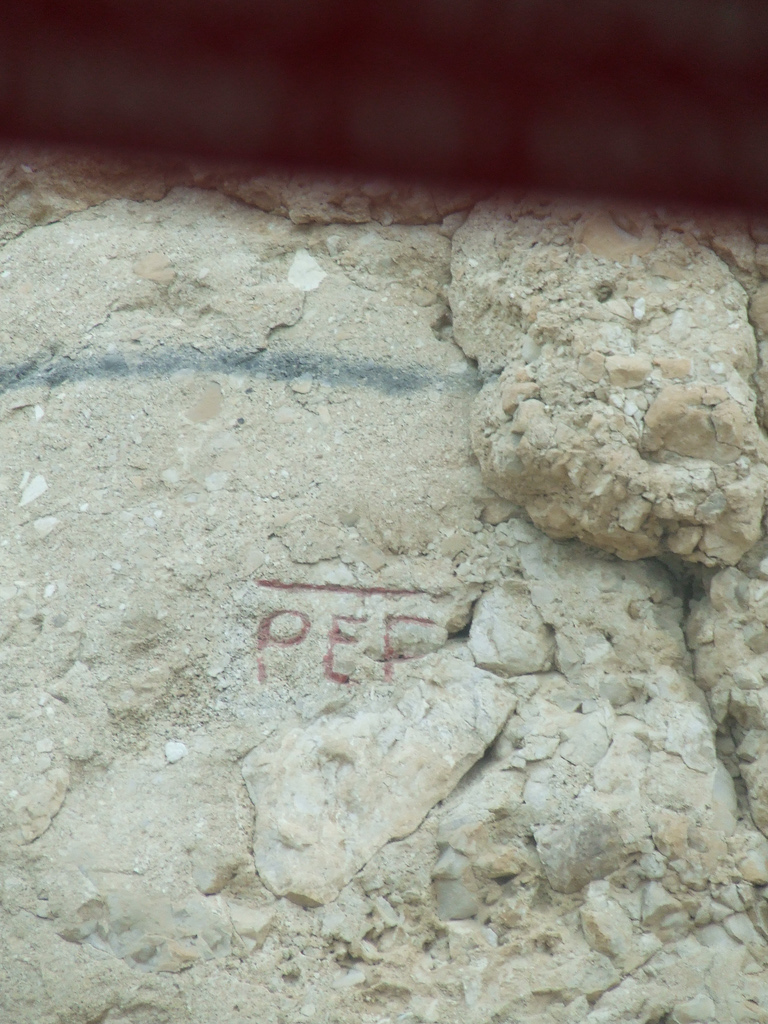 Rock used by the Palestine Exploration Fund to mark the level of the Dead Sea in the beginning of the 20th century